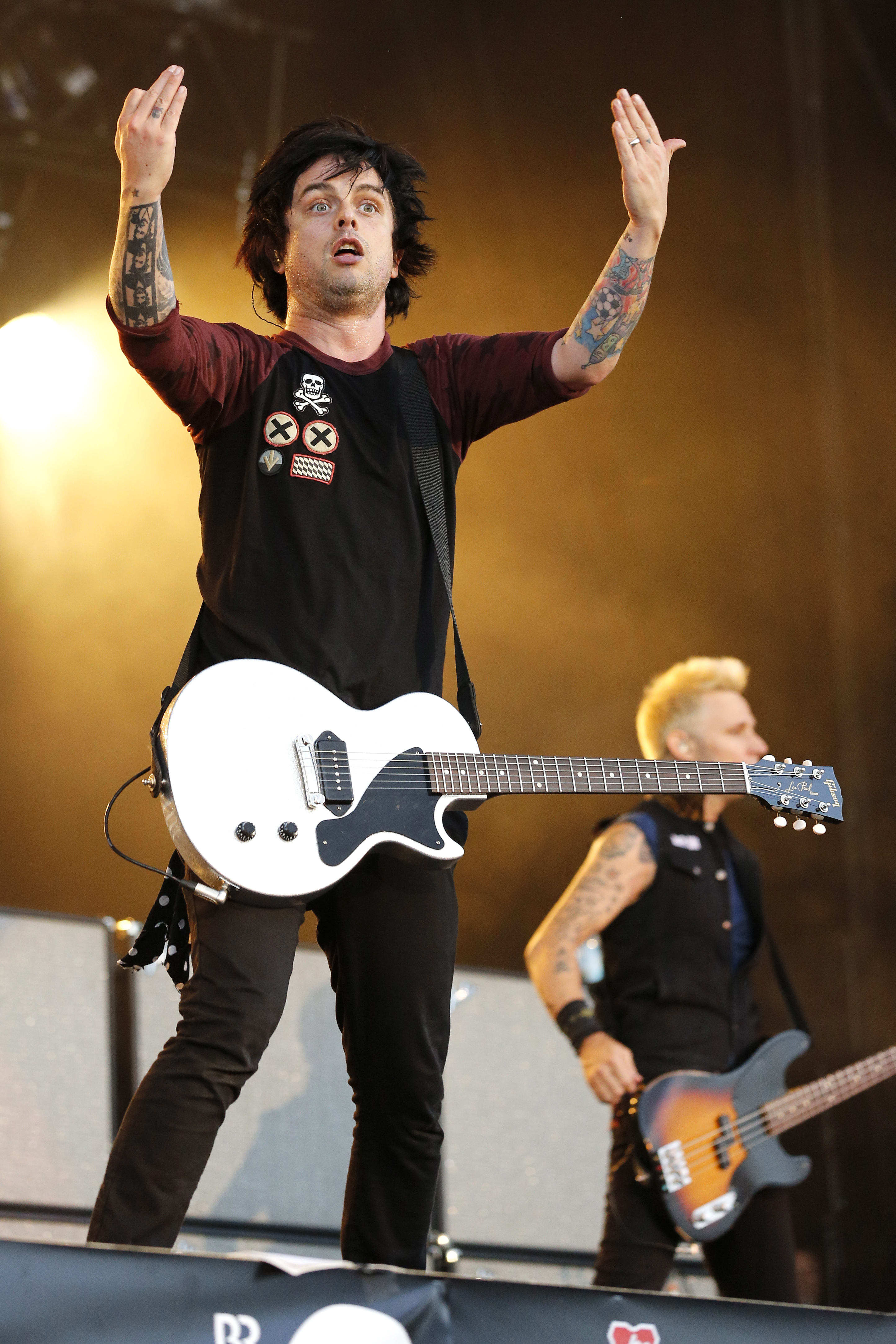 Billie Joe Armstrong, singer and guitarist of Green Day, stands on the Center Stage of Rock im Park-Festival 2013.